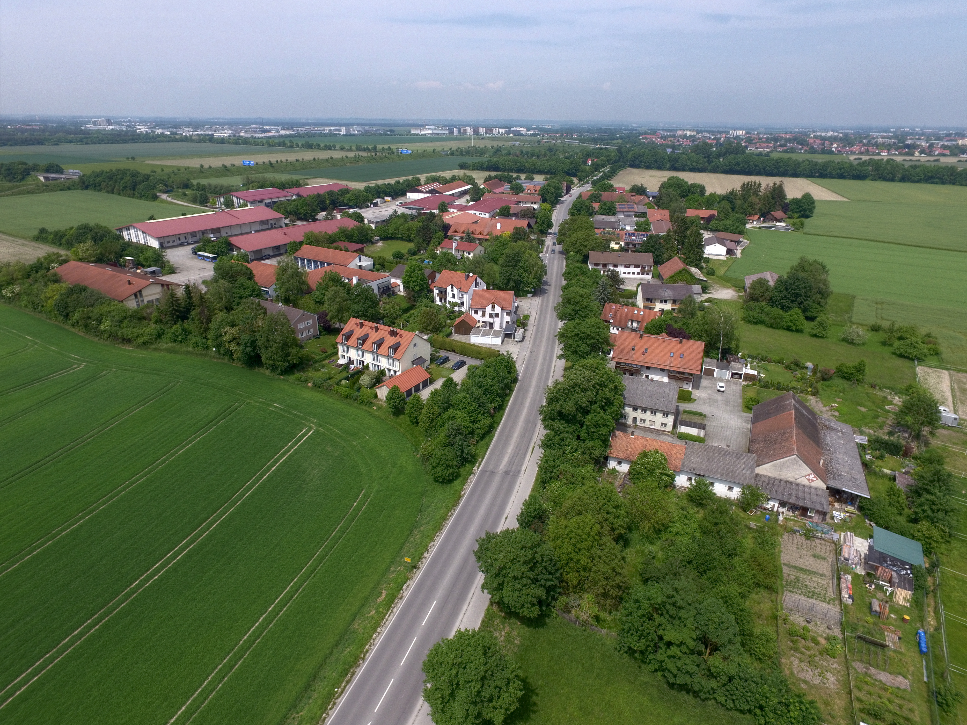 Aerial view of the village Dirnismaning near Garching bei München.